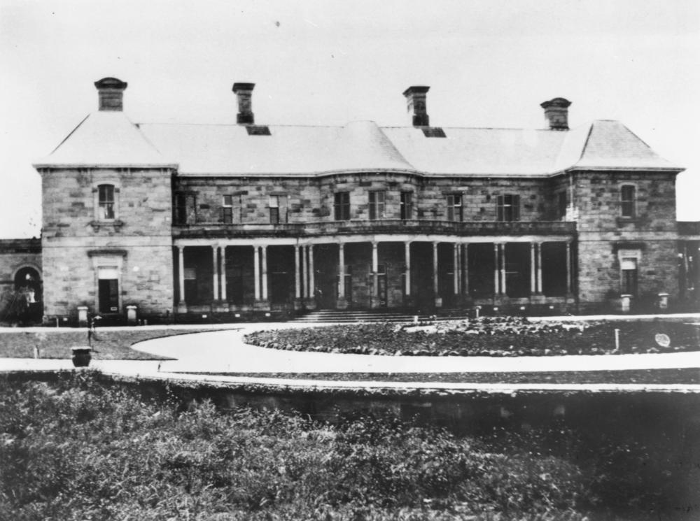 Front view of Jimbour House, ca. 1925.